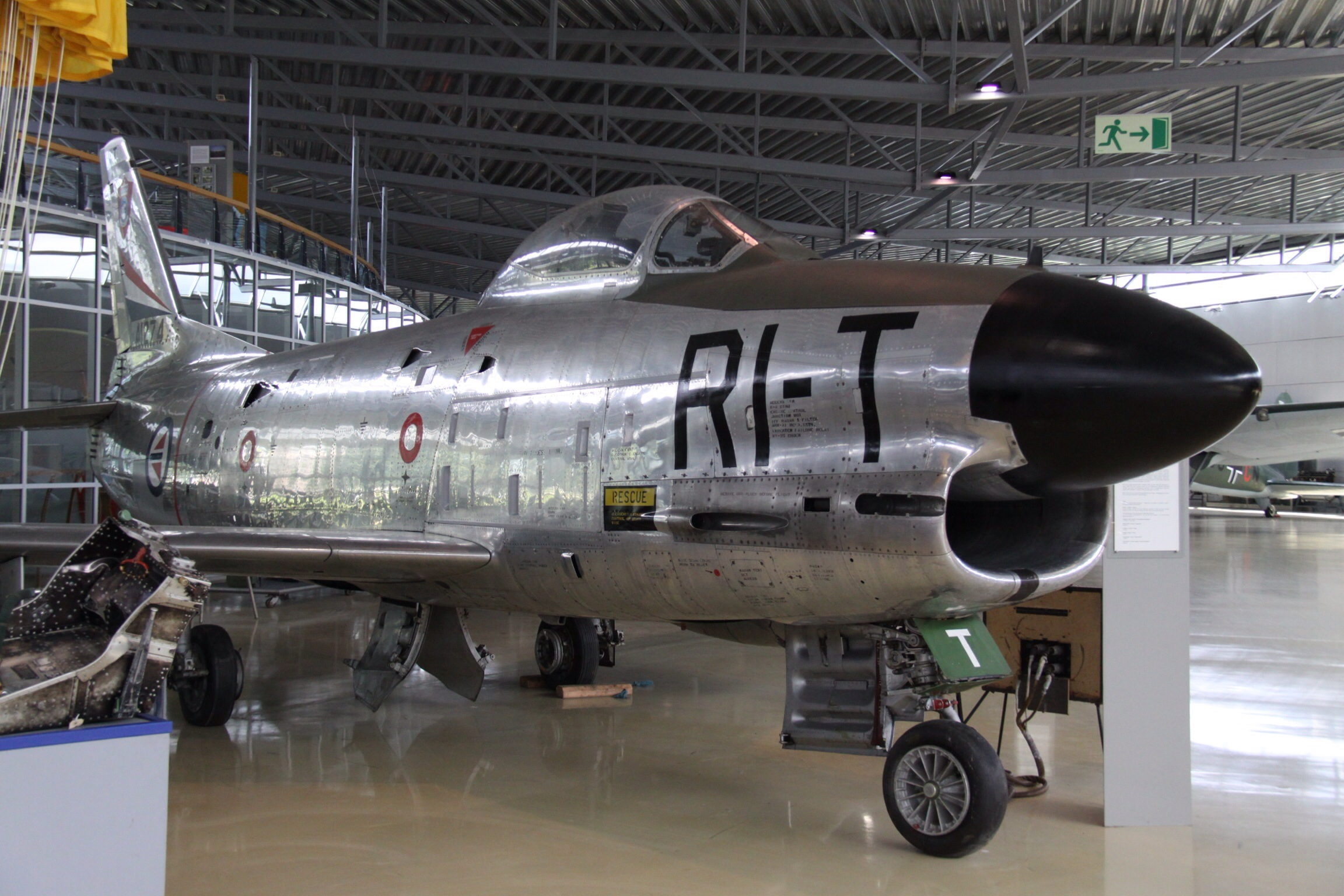 At Oslo Gardermoen